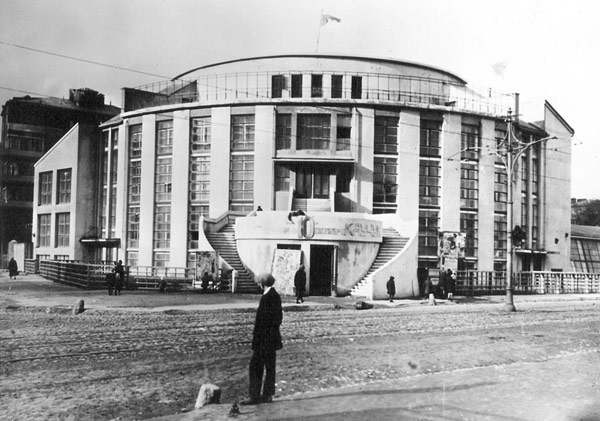 Kauchuk Club (house of culture) under construction — 64 Plushchikha Street, Moscow (1929). By Constructivist architect Konstantin Melnikov (pictured in foreground).